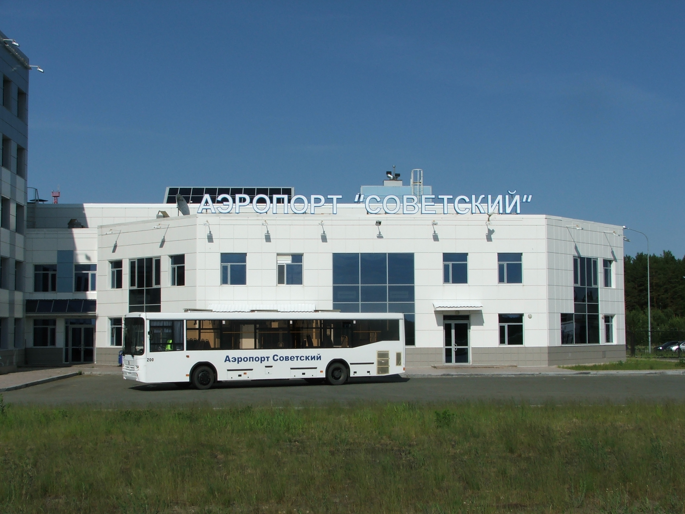 terminal